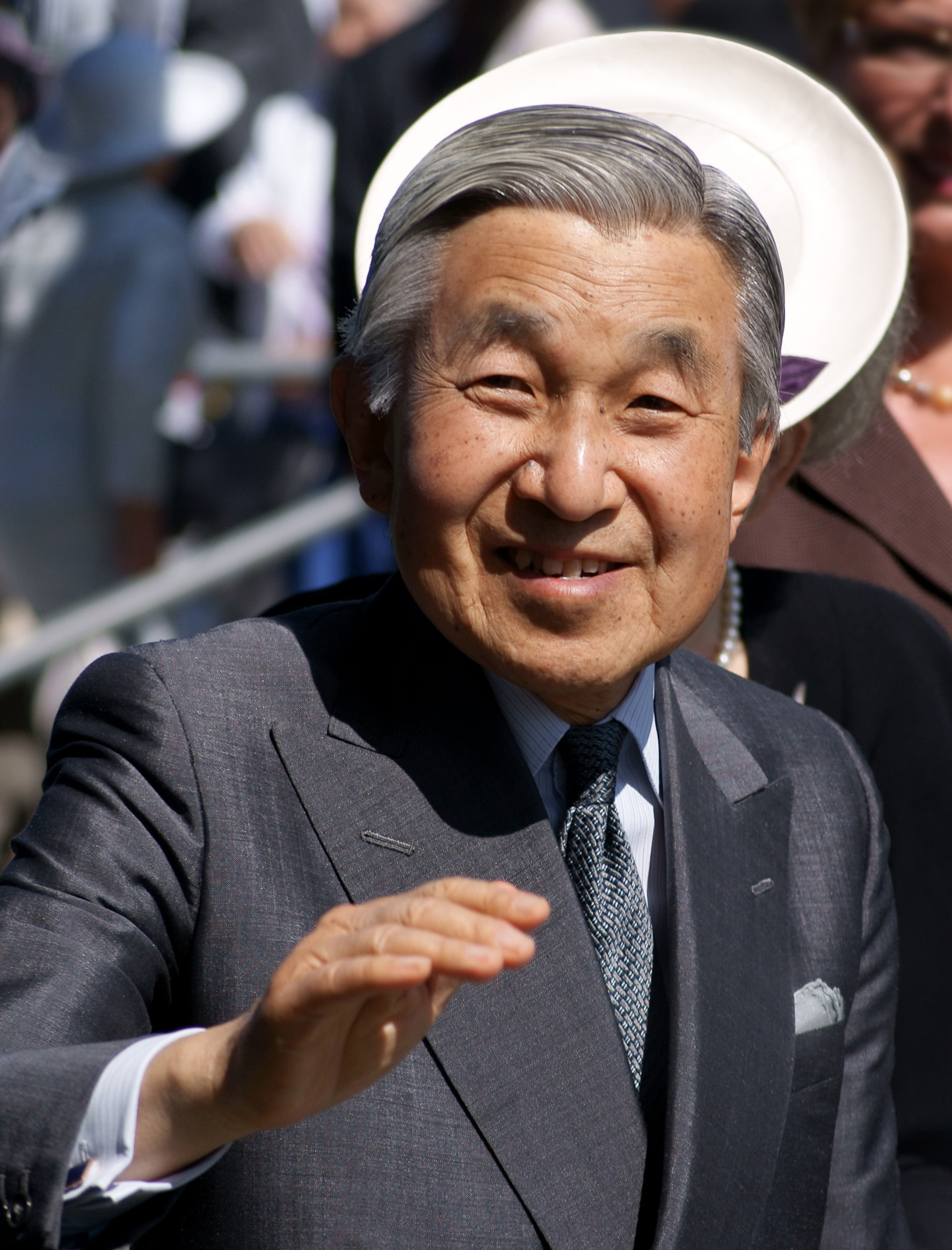 Emperor Akihito and Empress Michiko (background) visiting the Richmond Olympic Oval in Richmond, B.C., Canada on July 10, 2009.